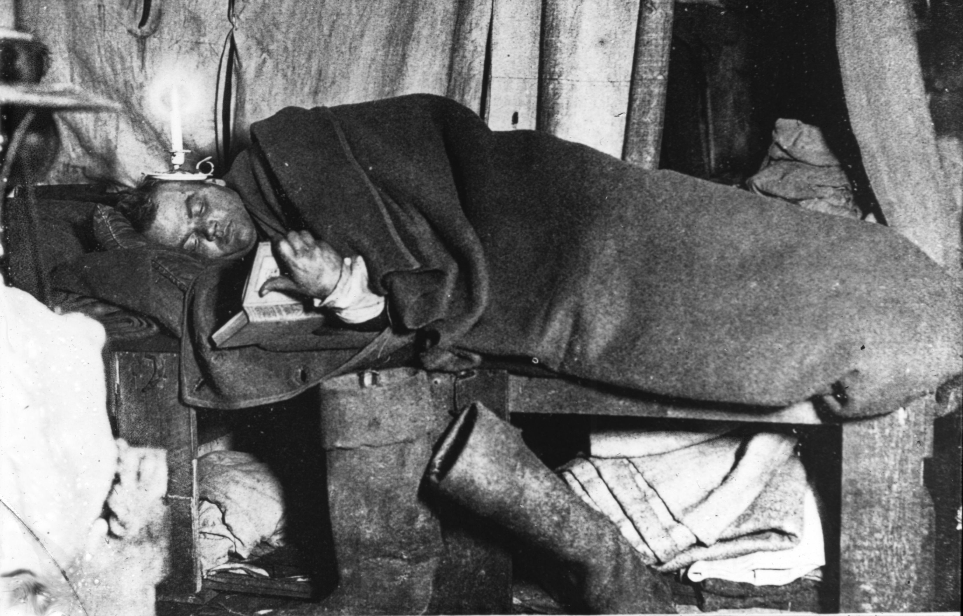 Photographs of the Nimrod Expedition (1907-09) to the Antarctic, led by Ernest Sheckleton